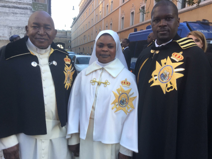 Archbishop Akuma (left) Sister Therese (middle) President Malanga (right)